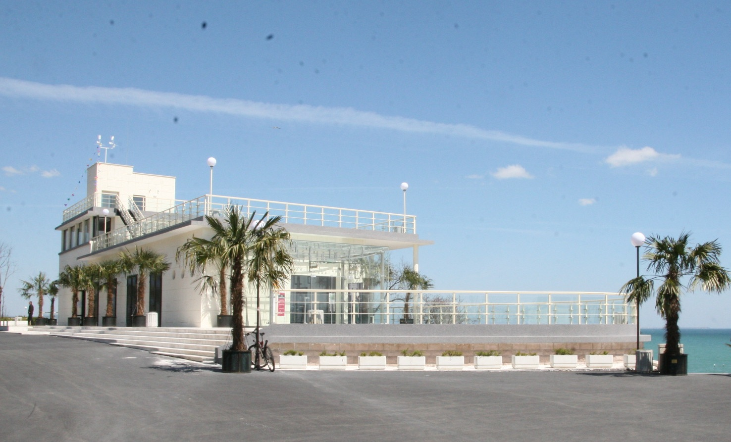 обновеното казино